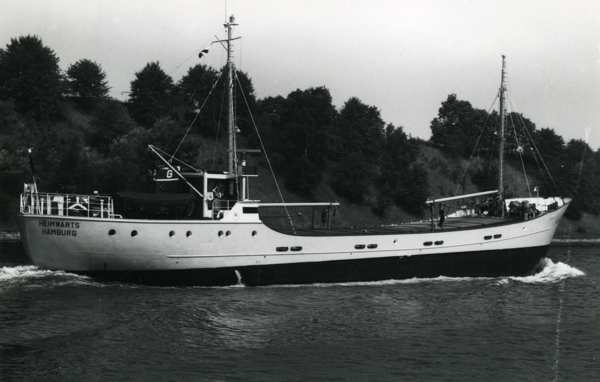 German coaster HEIMWÄRTS (IMO 5145659) built at J.J. Sietas Schiffswerft, Hamburg-Neuenfelde, in 1962 (Sietas type 35), from the collection of Boman, J. Robert, owned by Sjöhistoriska museet.